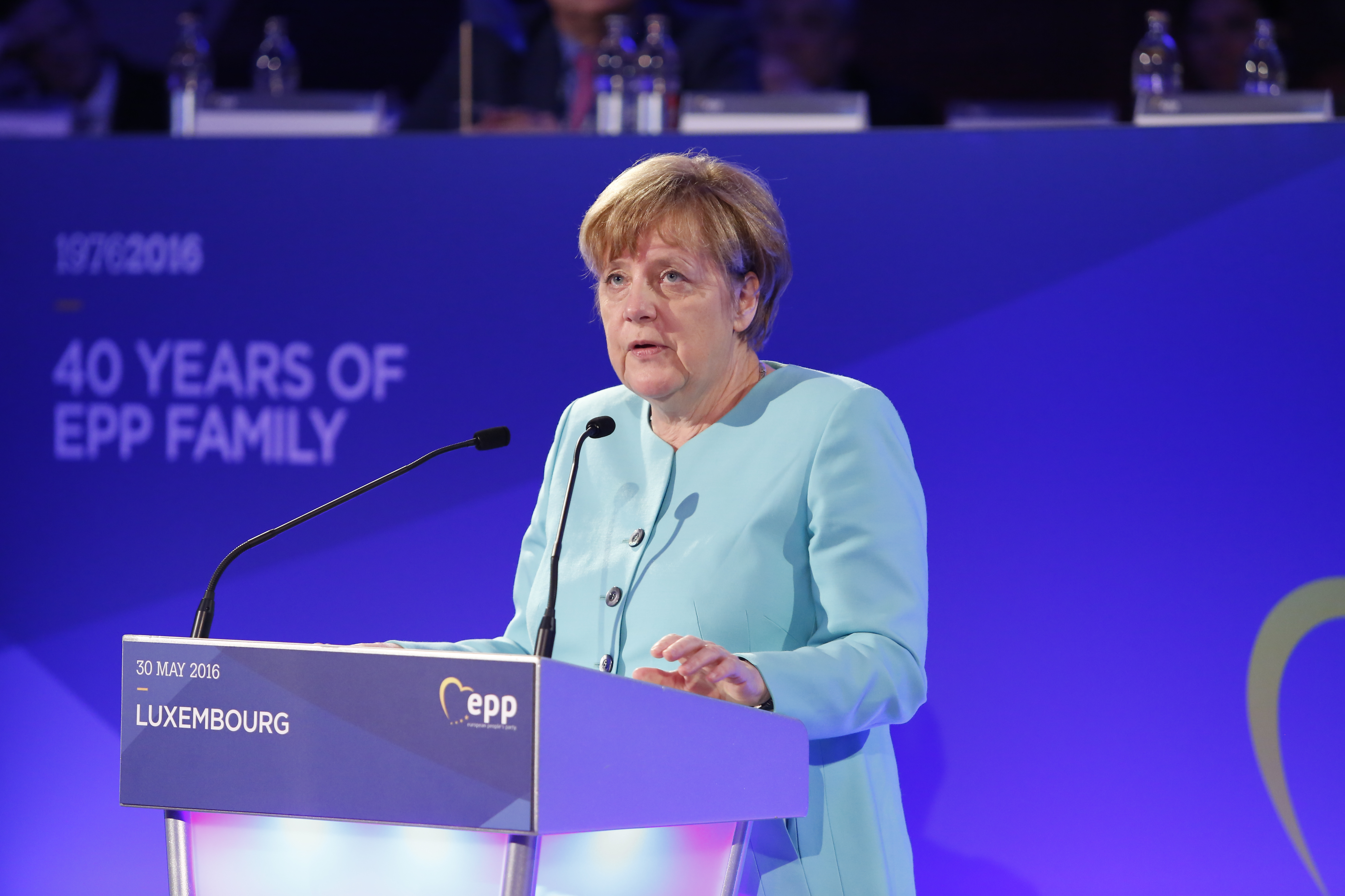 40 years of EPP family